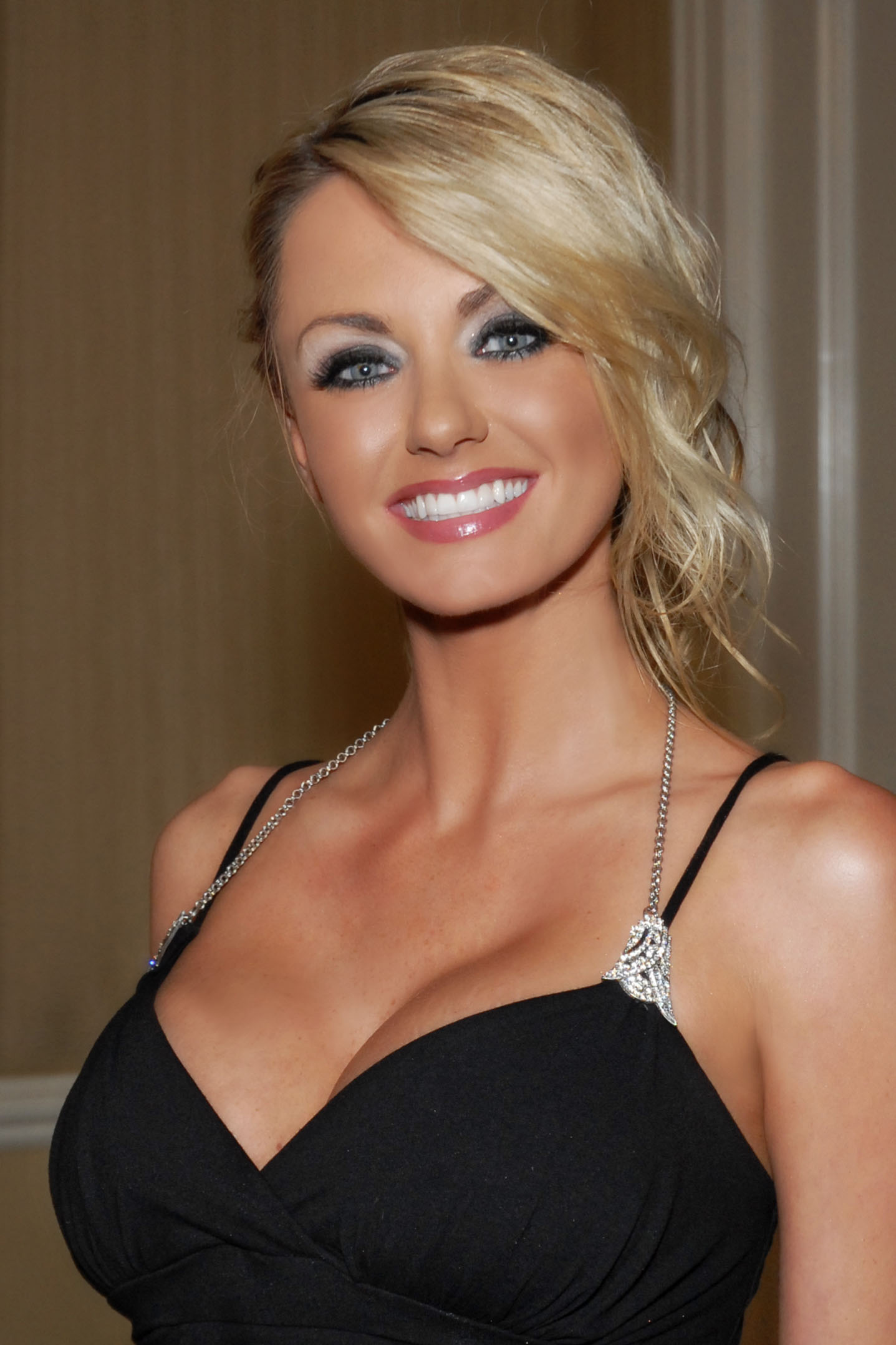 Cassandra Lynn, Beverly Hills, California on February 24, 2008 - Photo by Glenn Francis of